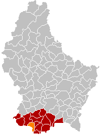 Own edit of Kanton Esch-sur-AlzetteLocatie.png